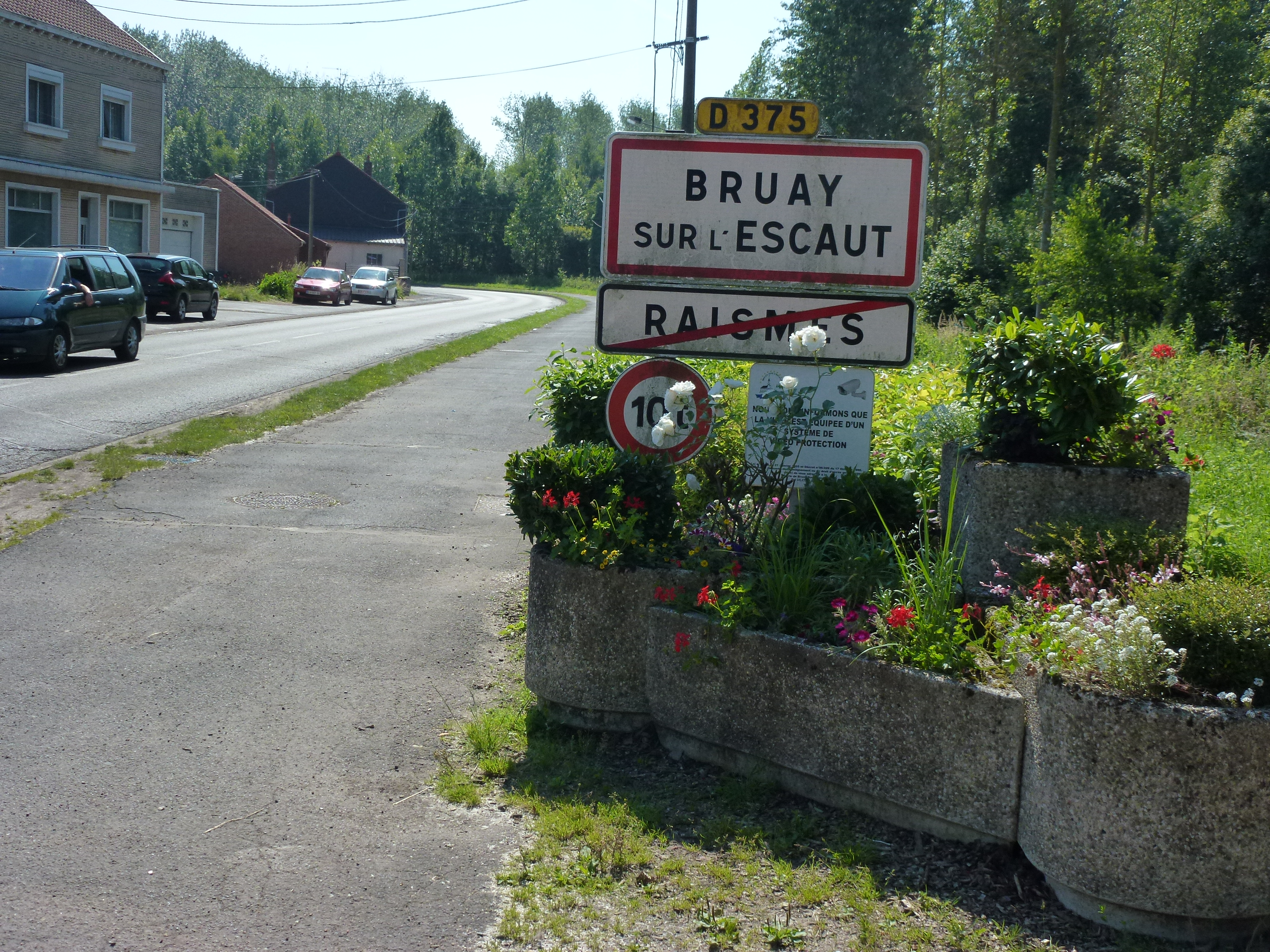 Bruay-sur-l'Escaut (Nord, Fr) city limit sign